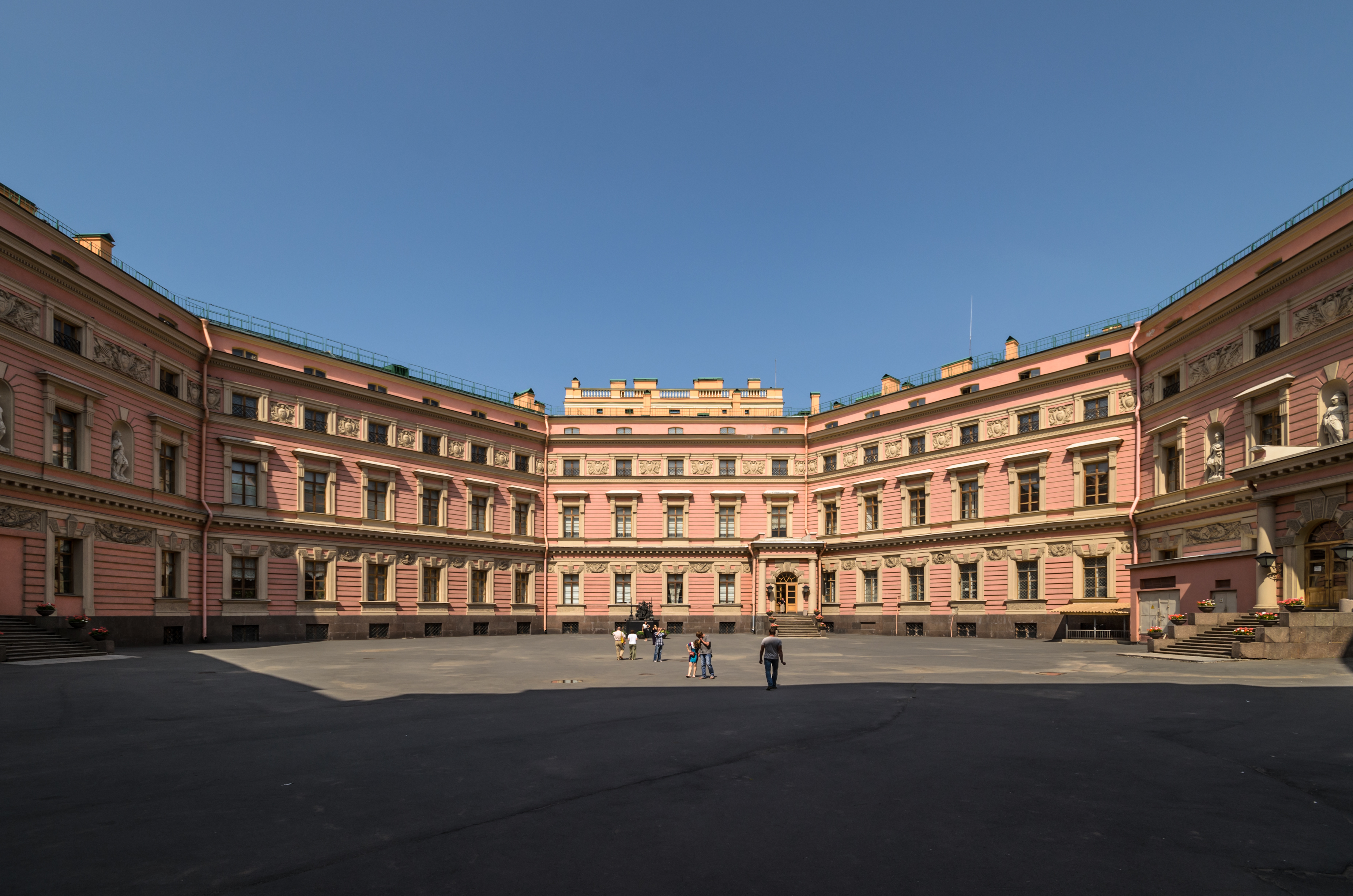 Saint Michael's Castle in Saint Petersburg (сourtyard)